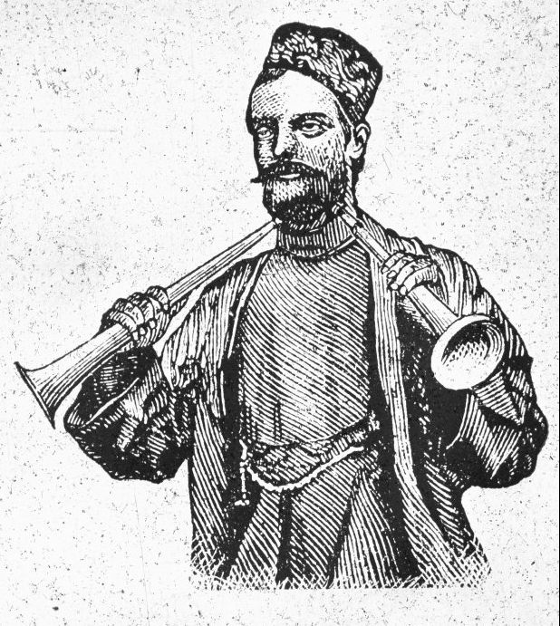 Nyastaranga, Indian mirliton